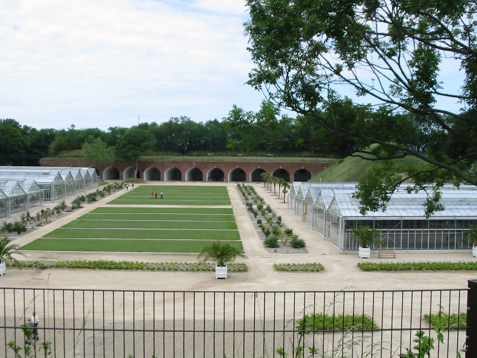 Le Havre (Normandy), former fort of Sainte-Adresse, now botanical garden.